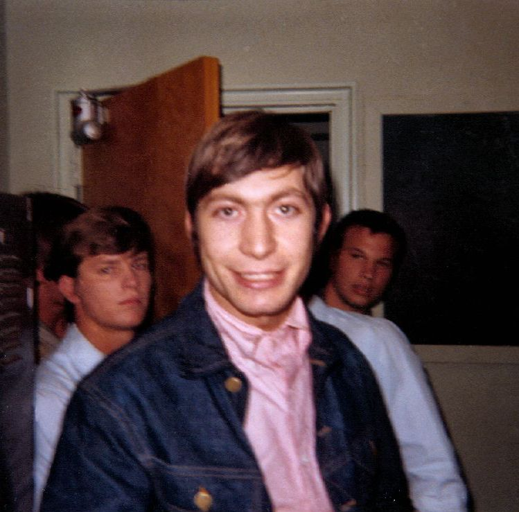 Charlie Watts, Statesboro, Georgia, May 4, 1965 Charlie Watts in the locker room of the gym of Georgia Southern College. Taken prior to the The Rolling Stones performance there on May 4, 1965. Photo by Kevin Delaney with a 110 Kodak Instamatic.